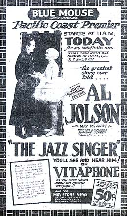 Description: Low-resolution image of Blue Mouse Theatre (Tacoma, Wash.) newspaper ad for the Warner Bros. movie The Jazz Singer (1927), featuring stars Al Jolson and May McAvoy, screening with Fox Movietone News